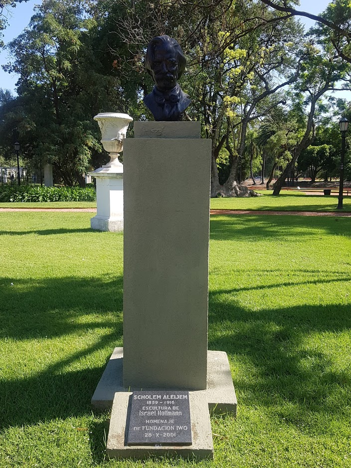 Bust of Sholem Aleichem at El Rosedal rose garden at Parque Tres de Febrero in Buenos Aires